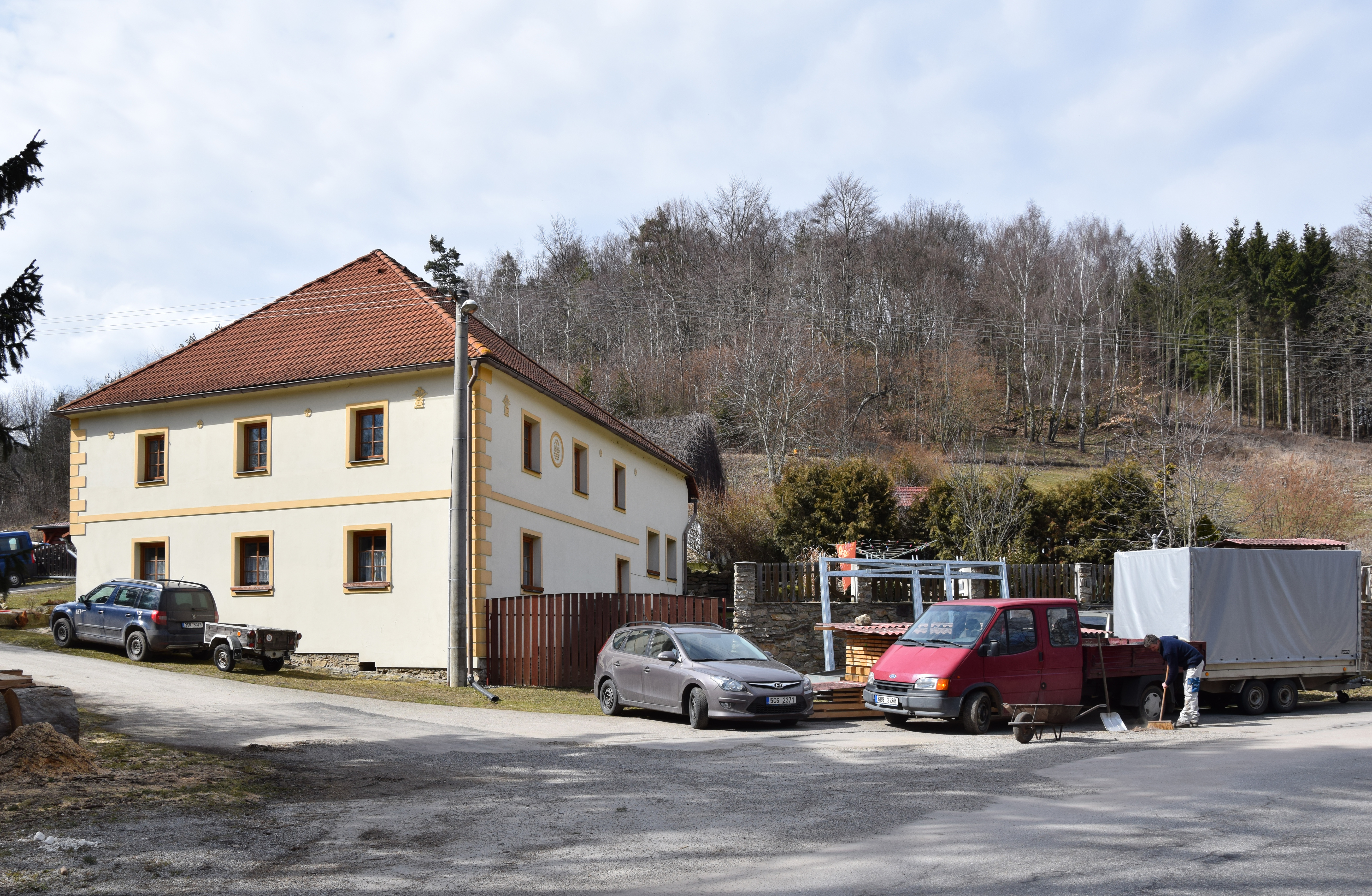 Janské Údolí, the Czech Republic. Former pub.